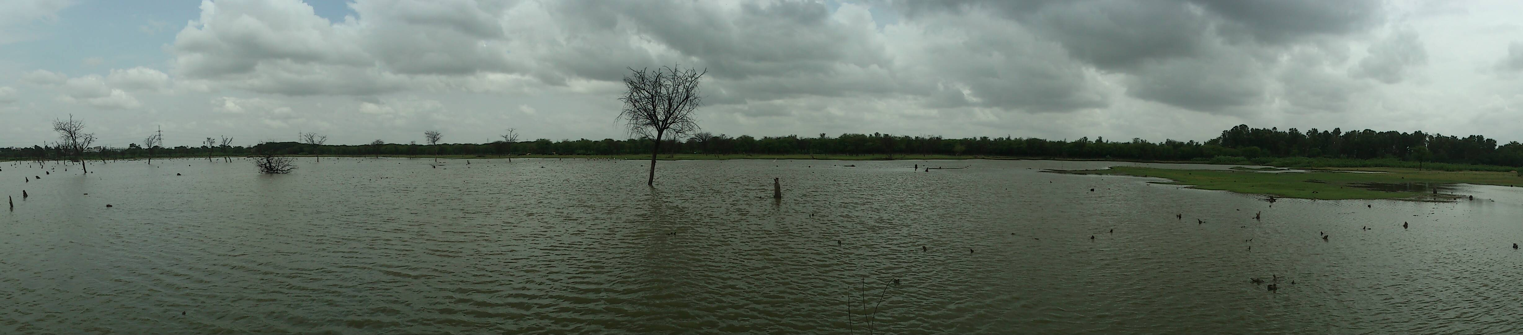 Turakayamjal lake panorama